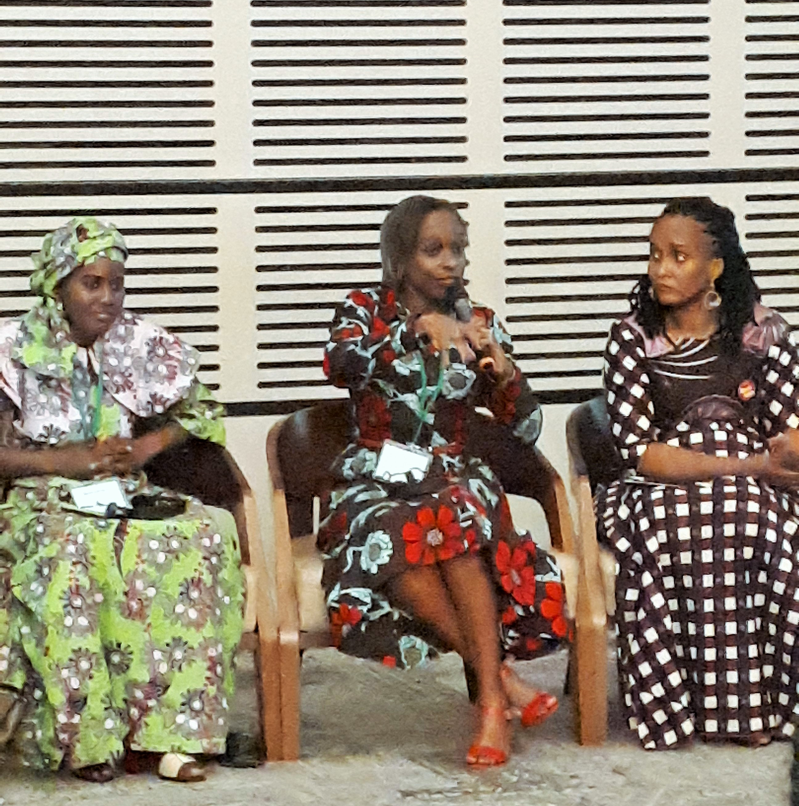 Omobola Johnson speaking on a panel at the 2018 African Summit on Women and Girls in Technology